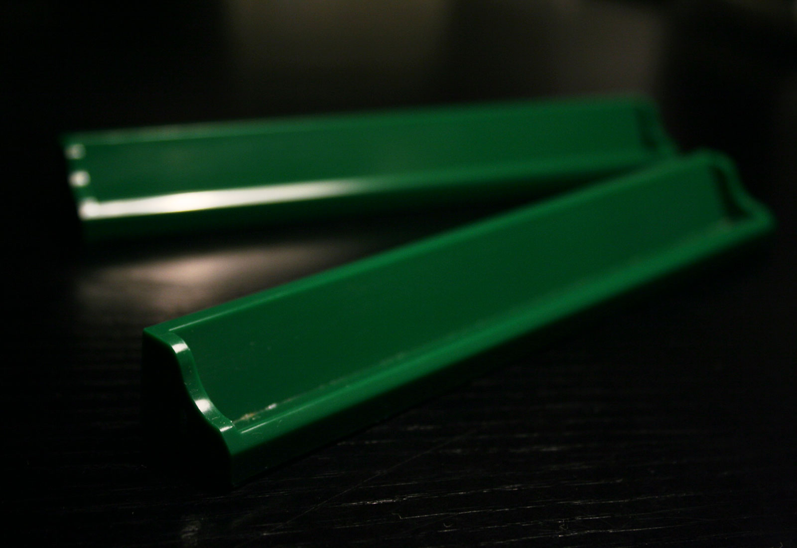 A pair of Scrabble racks. Taken by Enoch Lau on 22 July 2006. As a courtesy, please let me know if you alter this image or this image description page. Original filename was IMG_0355.JPG.